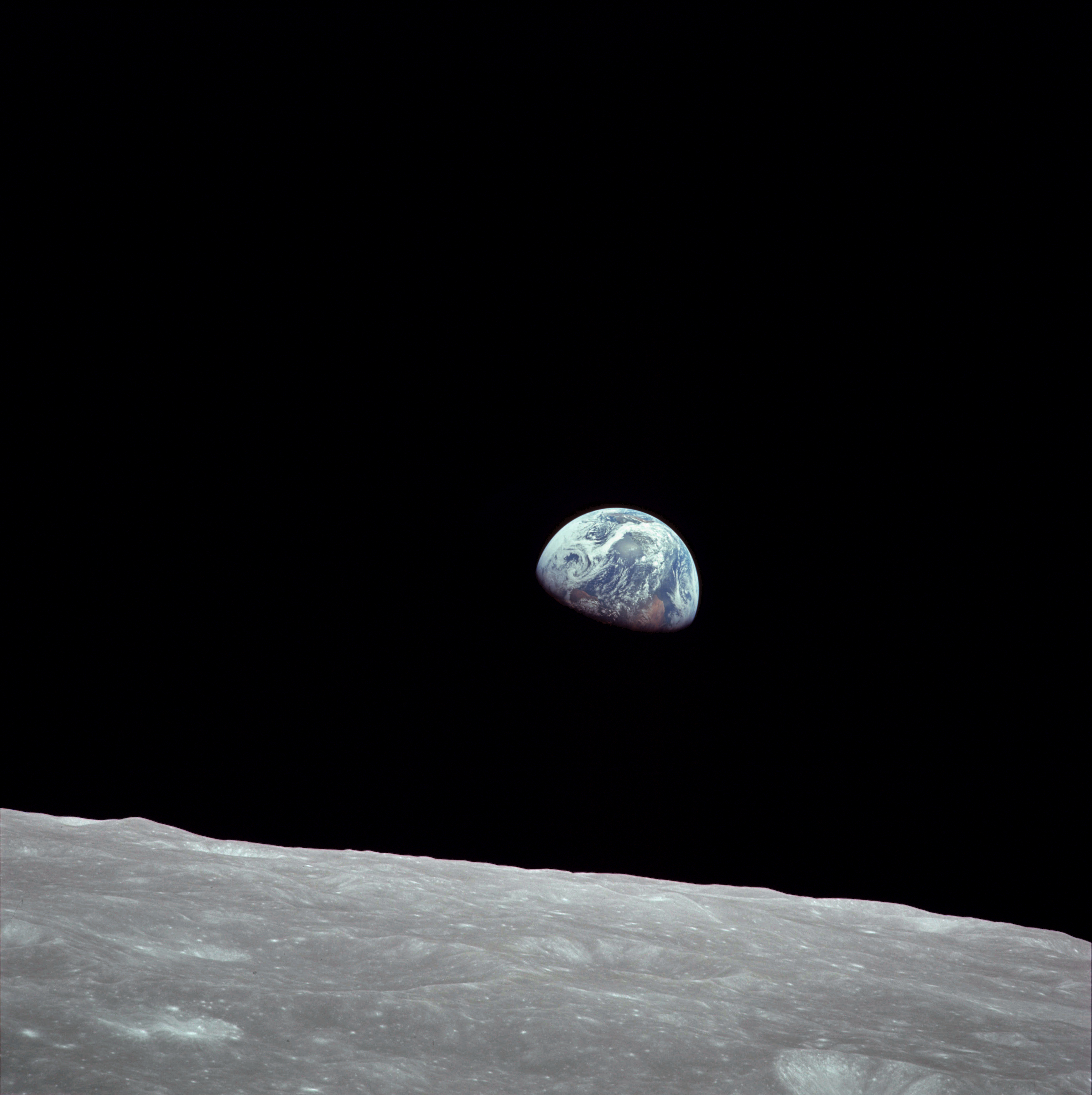 Taken by Apollo 8 crewmember Bill Anders on the morning of December 24, 1968, at mission time 075:49:07 [4] (16:40 UTC), while in orbit around the Moon, showing the Earth rising for the third time above the lunar horizon. The lunar horizon is approximately 570 kilometers (350 statute miles) from the spacecraft. Width of the photographed area at the lunar horizon is about 150 kilometers (95 statute miles). [5] The land mass visible just above the sunset terminator line is west Africa. Note that this phenomenon is only visible to an observer in motion relative to the lunar surface. Because of the Moon's synchronous rotation relative to the Earth (i.e., the same side of the Moon is always facing Earth), the Earth appears to be stationary (measured in anything less than a geological timescale) in the lunar "sky". In order to observe the effect of Earth rising or setting over the Moon's horizon, an observer must travel towards or away from the point on the lunar surface where the Earth is most directly overhead (centered in the sky). Otherwise, the Earth's apparent motion/visible change will be limited to: 1. Growing larger/smaller as the orbital distance between the two bodies changes. 2. Slight apparent movement of the Earth due to the eccenticity of the Moon's orbit, the effect being called libration. 3. Rotation of the Earth (the Moon's rotation is synchronous relative to the Earth, the Earth's rotation is not synchronous relative to the Moon). 4. Atmospheric & surface changes on Earth (i.e.: weather patterns, changing seasons, etc.). Two craters, visible on the image were named 8 Homeward and Anders' Earthrise in honor of Apollo 8 by IAU in 2018.[6]